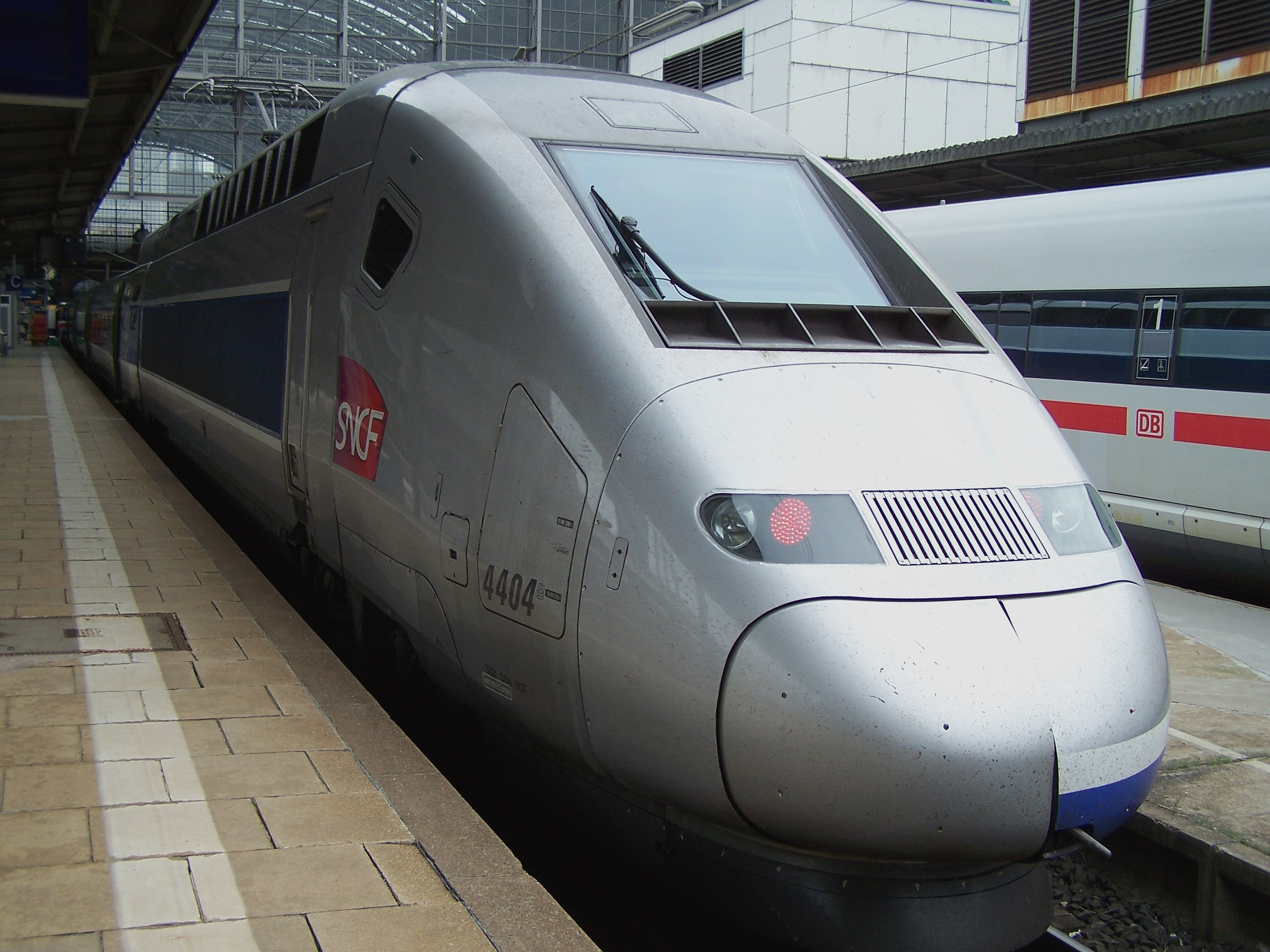 TGV POS No 4404 in the Frankfurt Central Station in Frankfurt am Main-Bahnhofsviertel